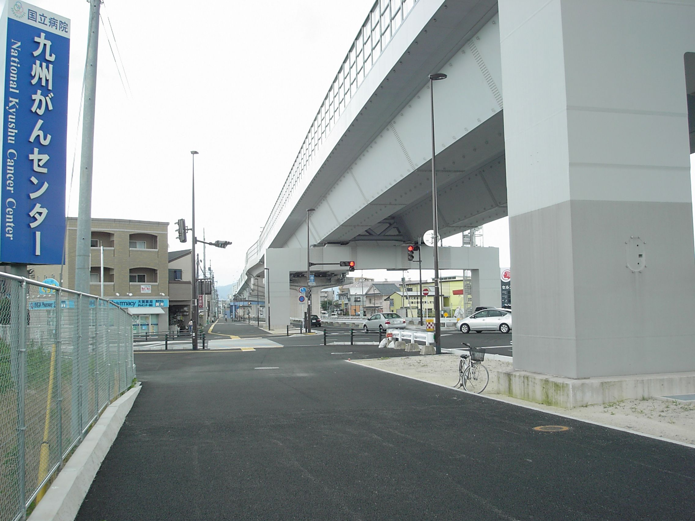 A sidewalk of the Fukuoka Ring Road, Route 202, with the Fukuoka Expwy Route 5 over it.